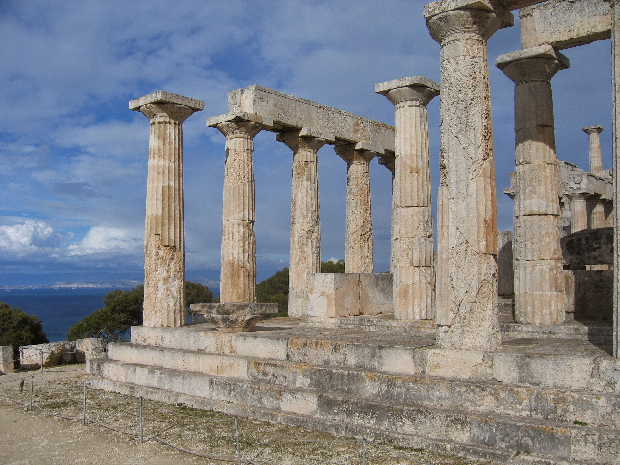 Temple of Aphaia on the island of Aegina near Athens, Greece